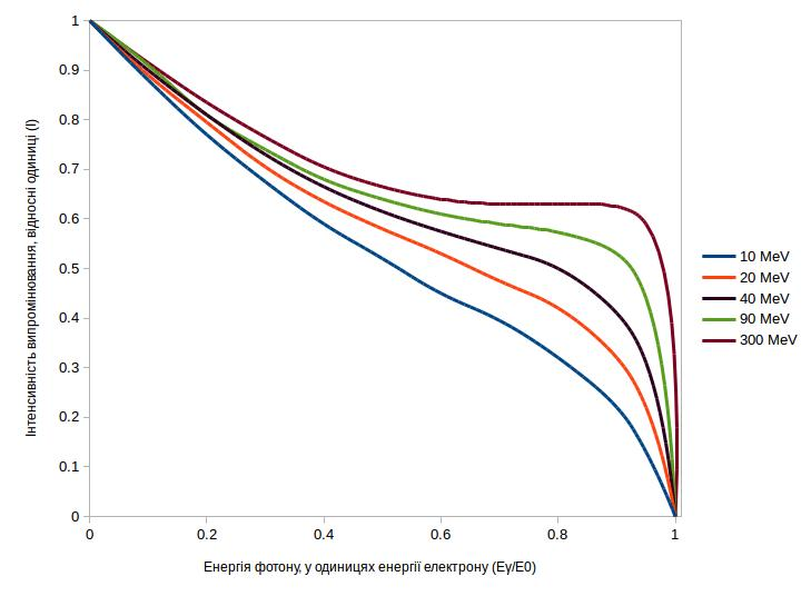 Dependency of energy of photon from energy of electron in Spectrum of bremsstrahlung